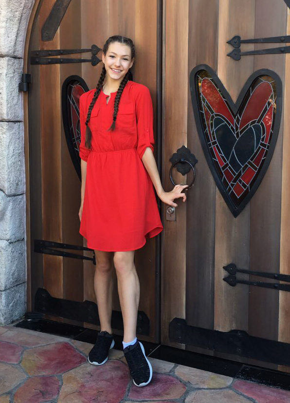 Evita Griskenas at Tokyo Disneyland, Japan